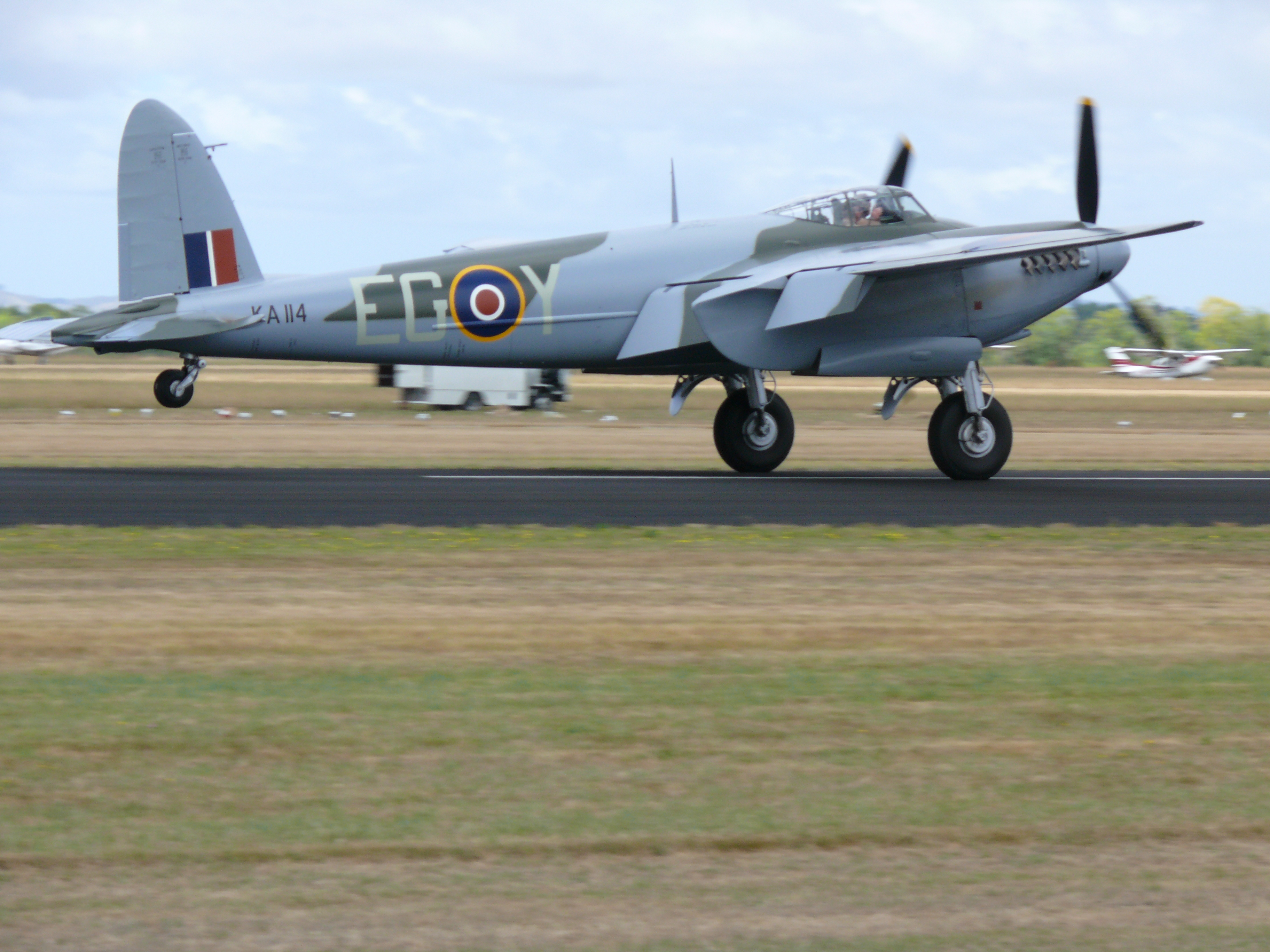 De Havilland Mosquito (FB Mk 26) flying at Wings over Wairarapa Airshow, Masterton, New Zealand.